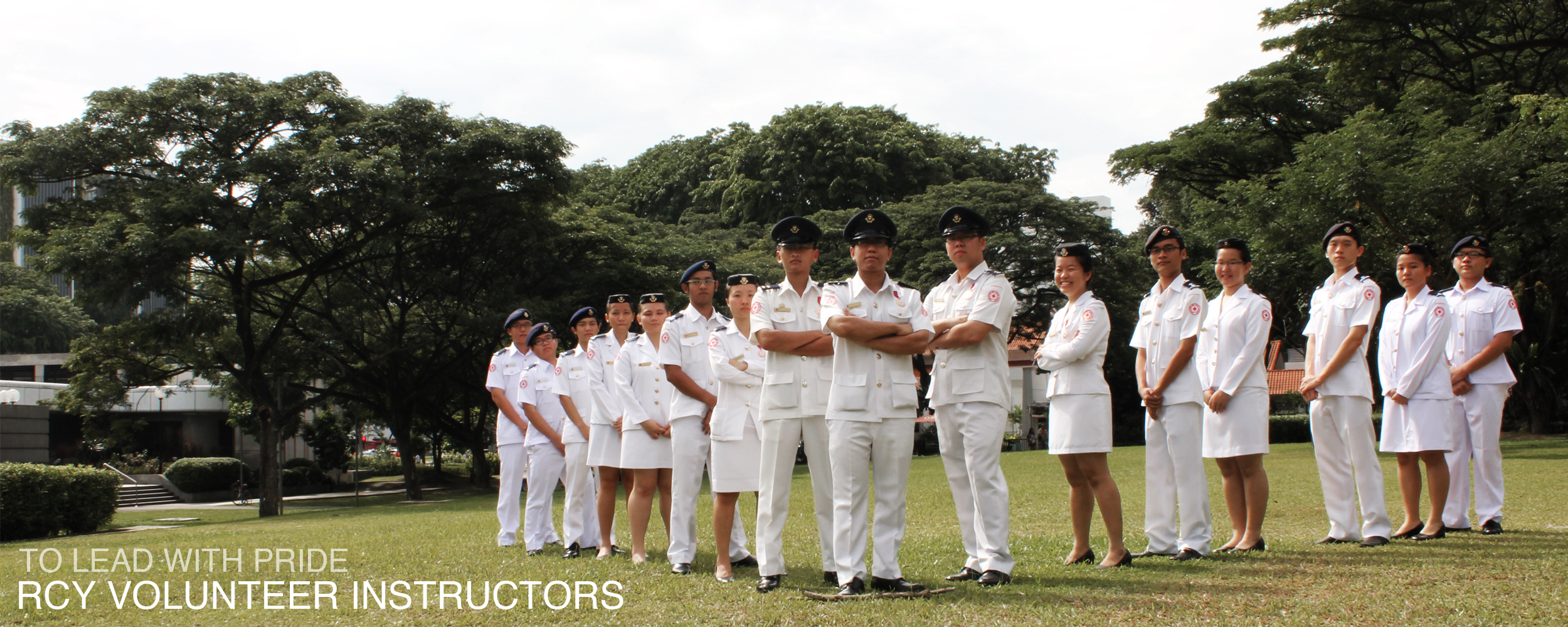 Volunteer Instructor of Singapore Red Cross Youth